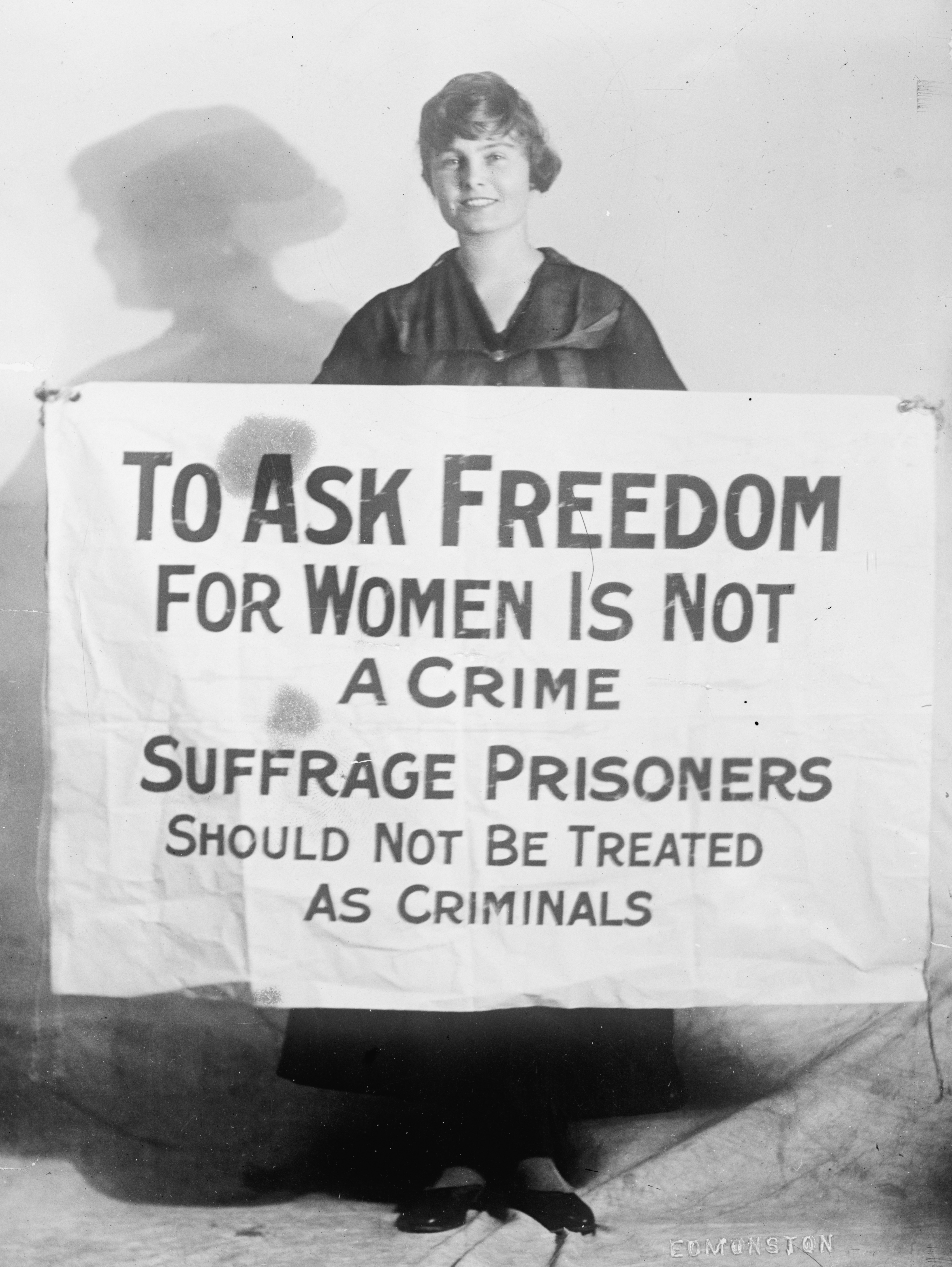 Title: WOMAN SUFFRAGE. LUCY BRANHAM WITH POSTERS Abstract/medium: 1 negative : glass ; 5 x 7 in. or smaller